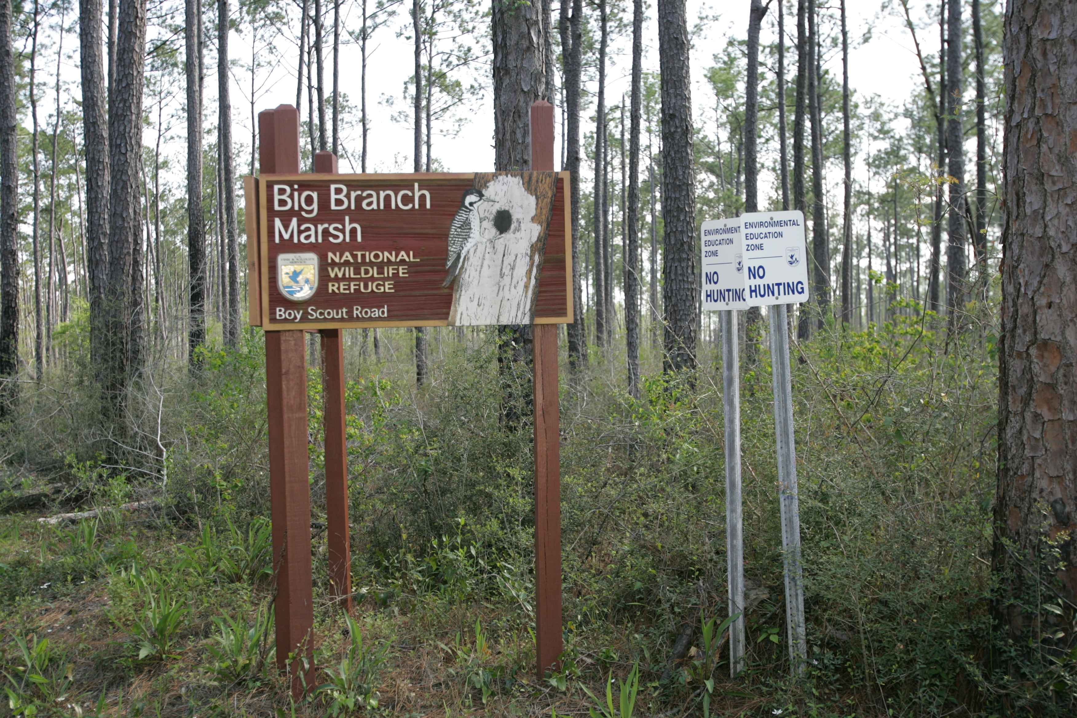 Image title: Entrance to Big Branch Marsh National Wildlife Refuge, Louisiana Image from Public domain images website